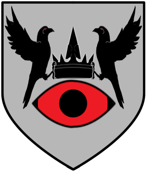 Coat of arms of Euron Greyjoy, character of A Song of Ice and Fire books and Game of Thrones tv series.